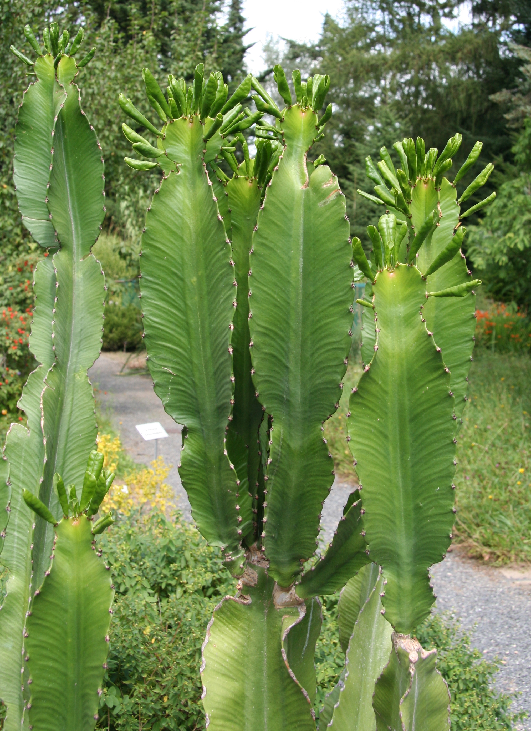 Euphorbia obovalifolia im Botanischen Garten Dresden; Synonym von Euphorbia abyssinica